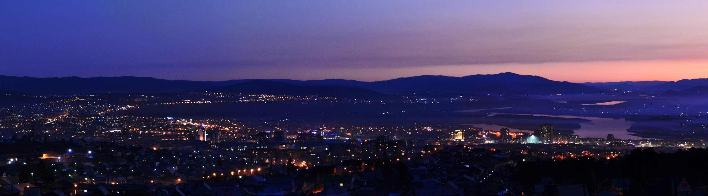 View of Ulan Ude city from Rinpoche Bagsha Buddhist Temple